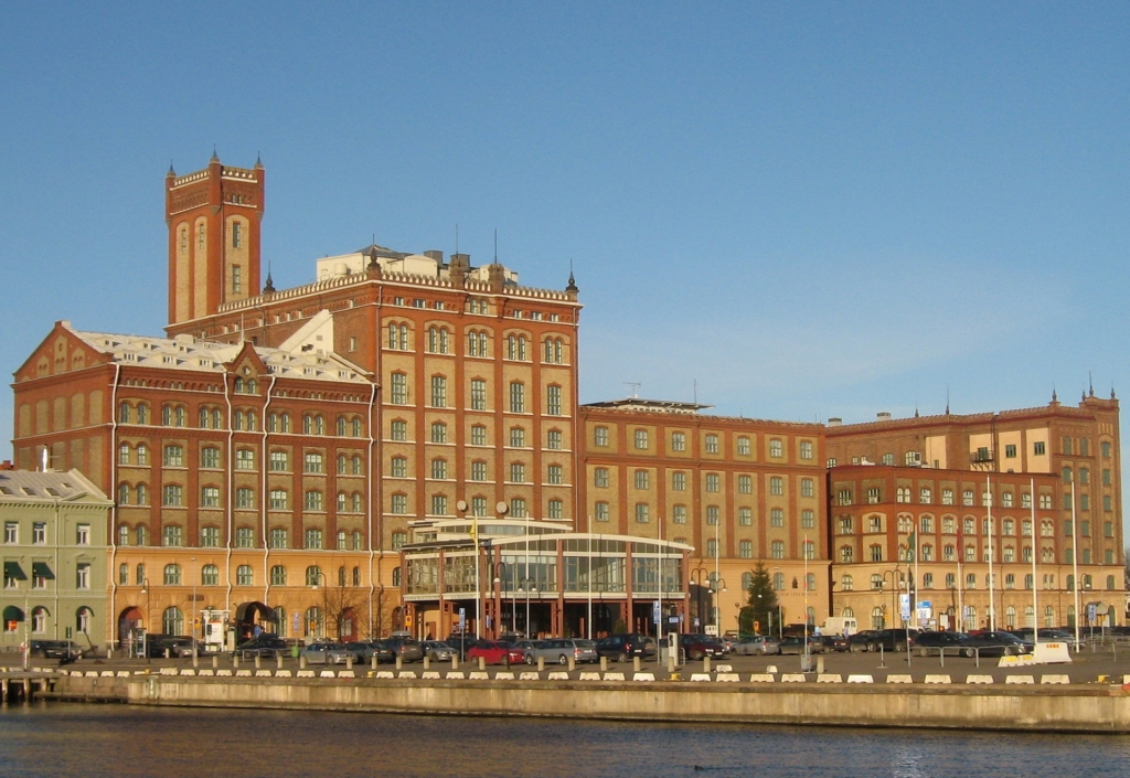 Old mill in Kalmar (now a museum), January 2, 2009